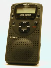 Author: Me, Kris Beldin. This image is free to be used by anyone on the Internet for any purpose. It is in the public domain.